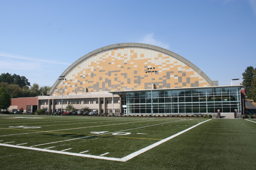 Kibbie Dome at University of Idaho.